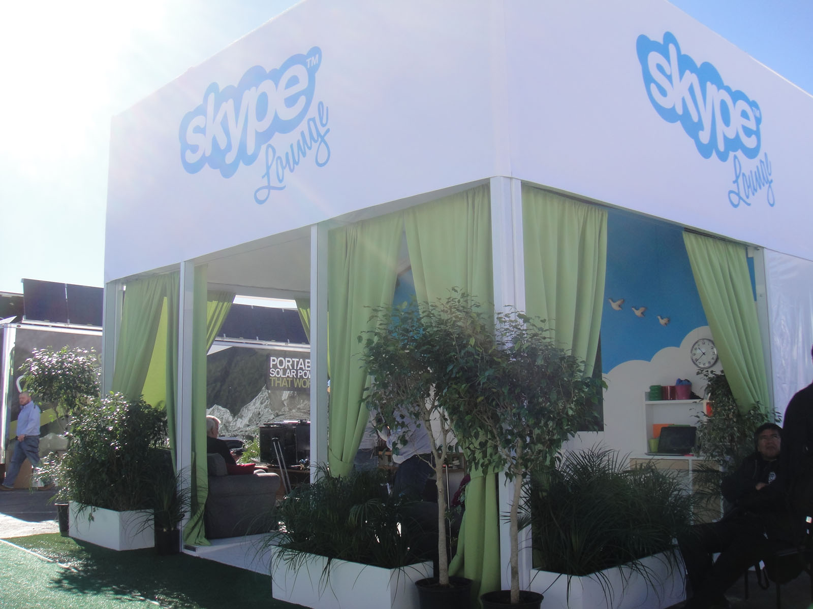 photo 2012 Pop Culture Geek taken by Doug Kline If you're interested in higher resolution versions of my images, contact me via my profile page.